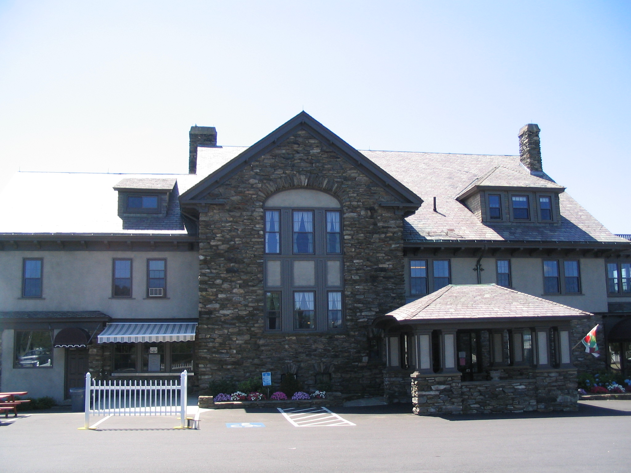 The Hebert Candy Mansion in Shrewsbury, MA, taken June 30, 2007.